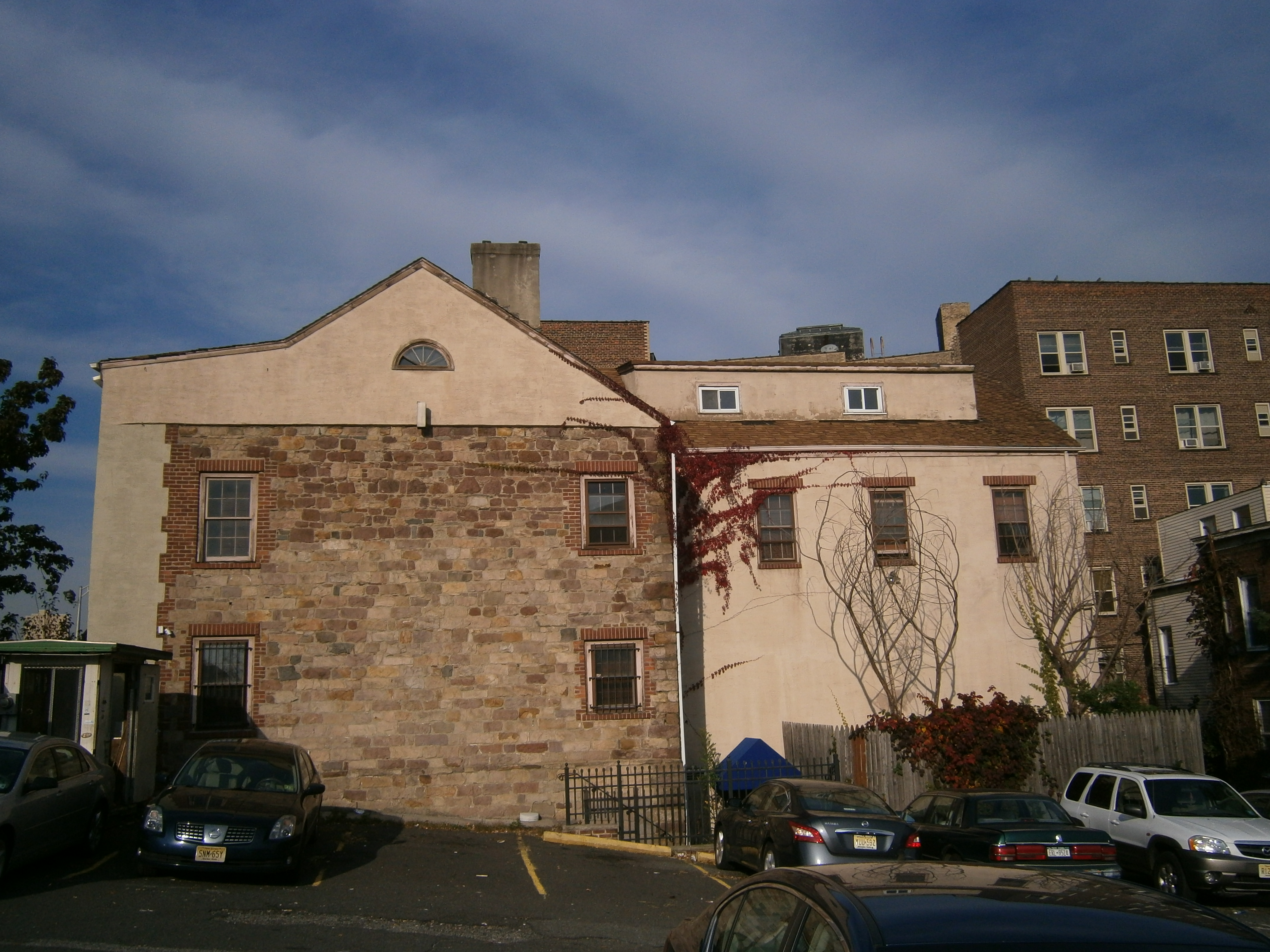 The Newkirk House, circa 1690, buildt as part of Bergen Dutch colony, is oldest extant building in Hudson County